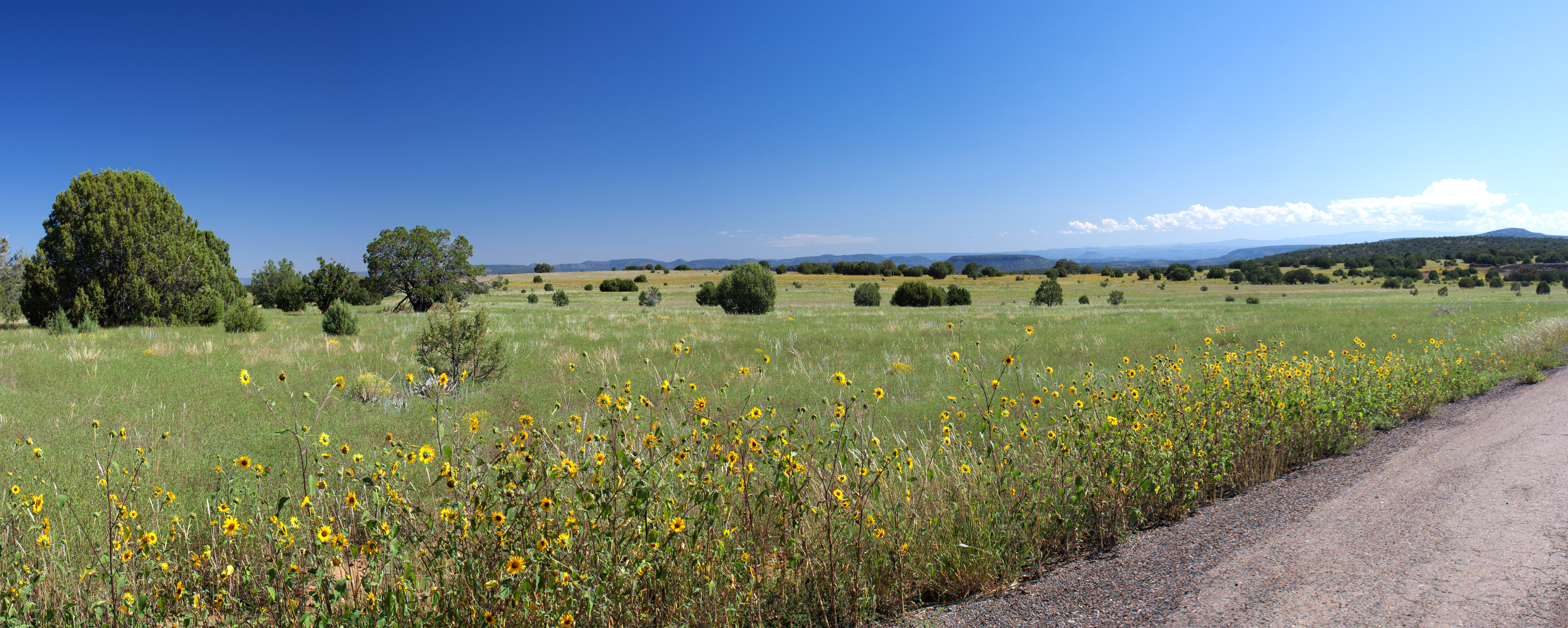 Flowers near Upper Salt River, roadside photo taken from Indian Route 1300